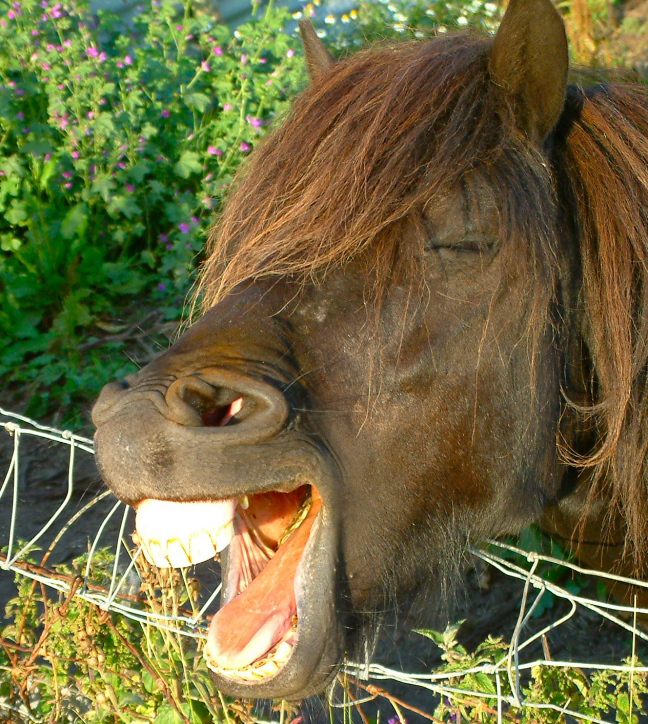 I hadn't met this pony before and as I put the camera up, this was his response!!